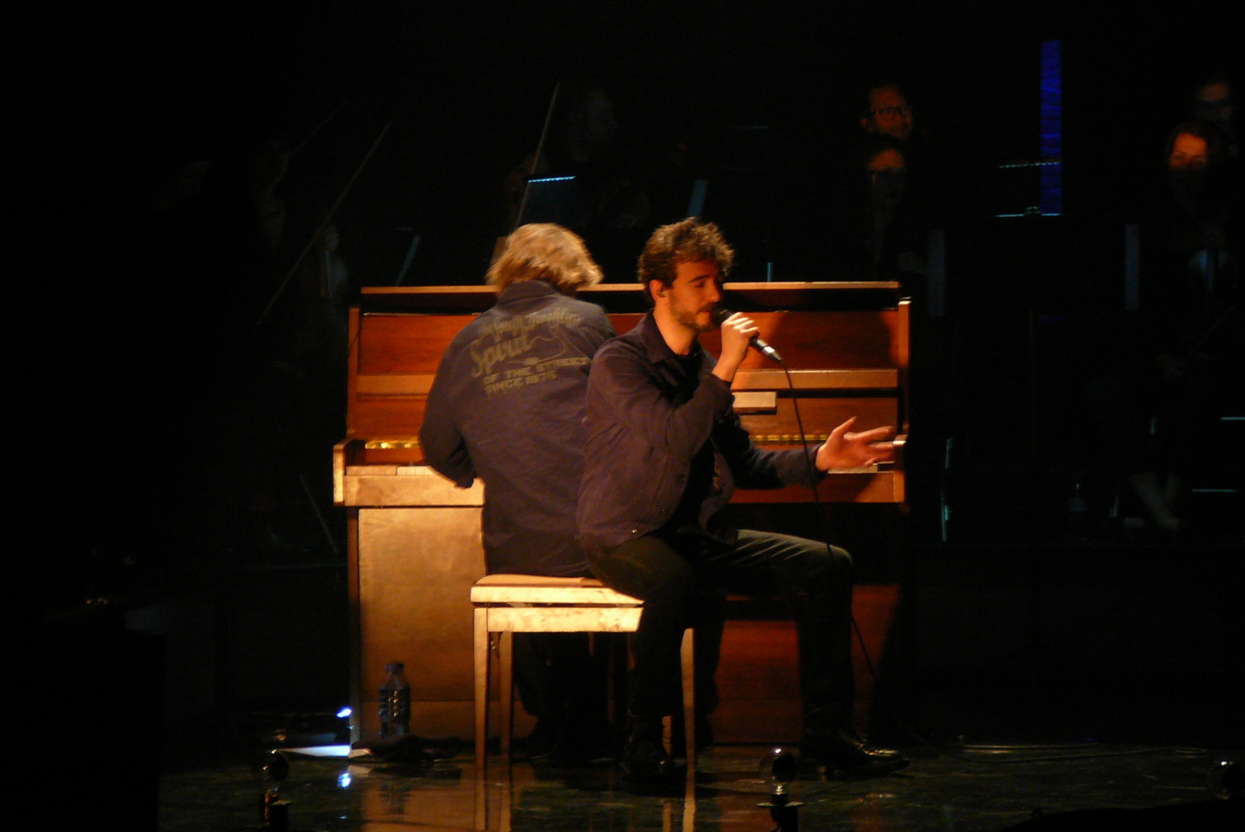 French singer Renan Luce on the stage of the Cirque royal, in Brussels, Belgium, in 2019